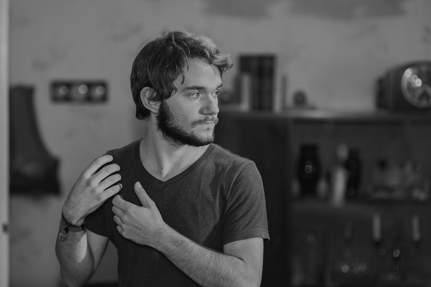 Steve Bache while directing a scene